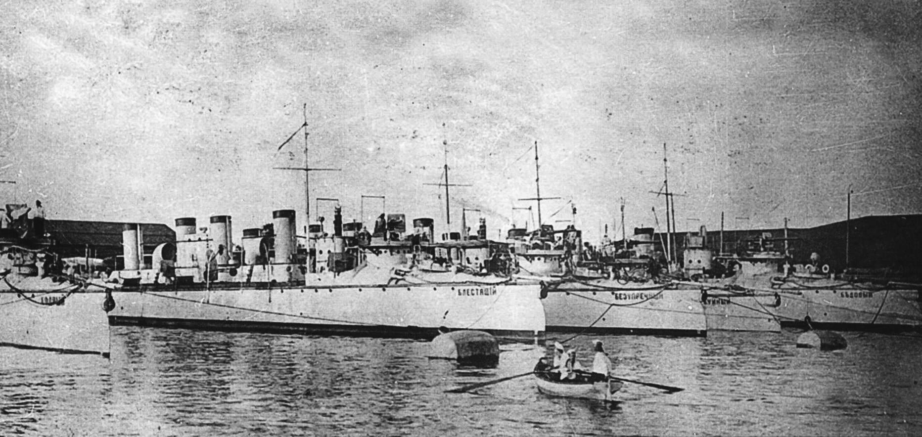 The Imperial Russian Buynyy class torpedo boat destroyers before putting for Far East.